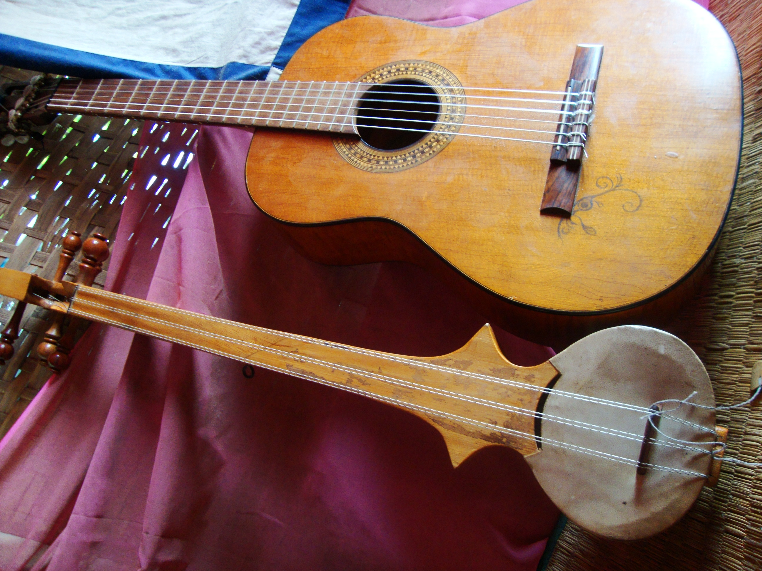 Dranyen (Tibetan lute) and my uncles guitar “Dramyin or dranyen (Tibetan:སྒྲ་སྙན་; Wylie:sgra-snyan; Dzongkha:dramnyen) is a traditional Himalayan folk music lute with seven strings. The instrument is played by strumming, fingerpicking or (most commonly) plucking.” —“Dramyin” on English Wikipedia